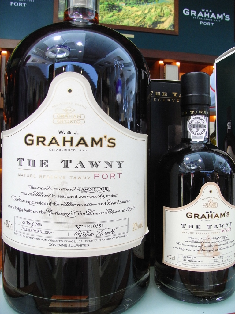 Different size wine bottles of Graham Tawny port from the Portuguese wine region of the Douro